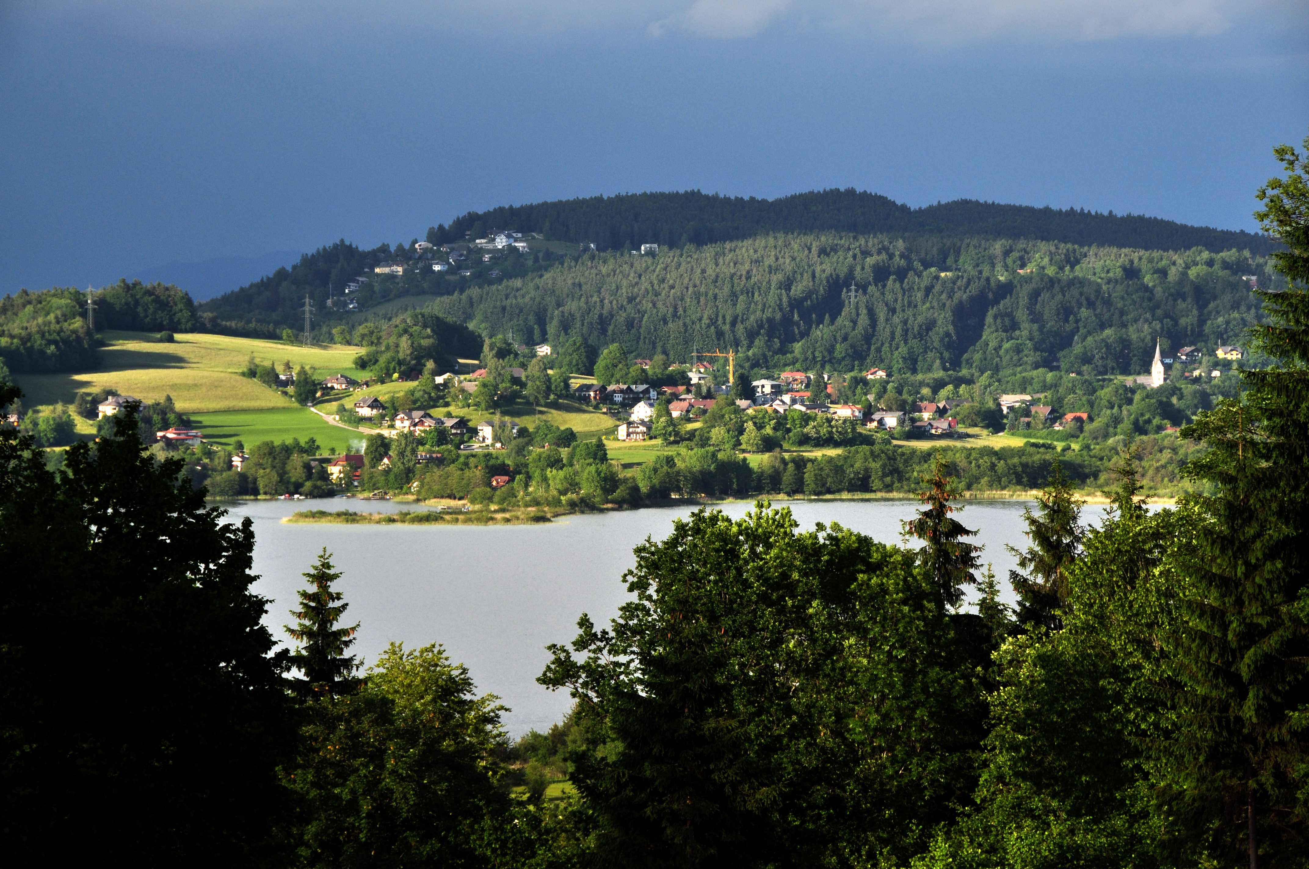 View from Dobein at the Keutschacher See with Keutschach in the background, municipality Keutschach am See, district Klagenfurt-Land, Carinthia, Austria